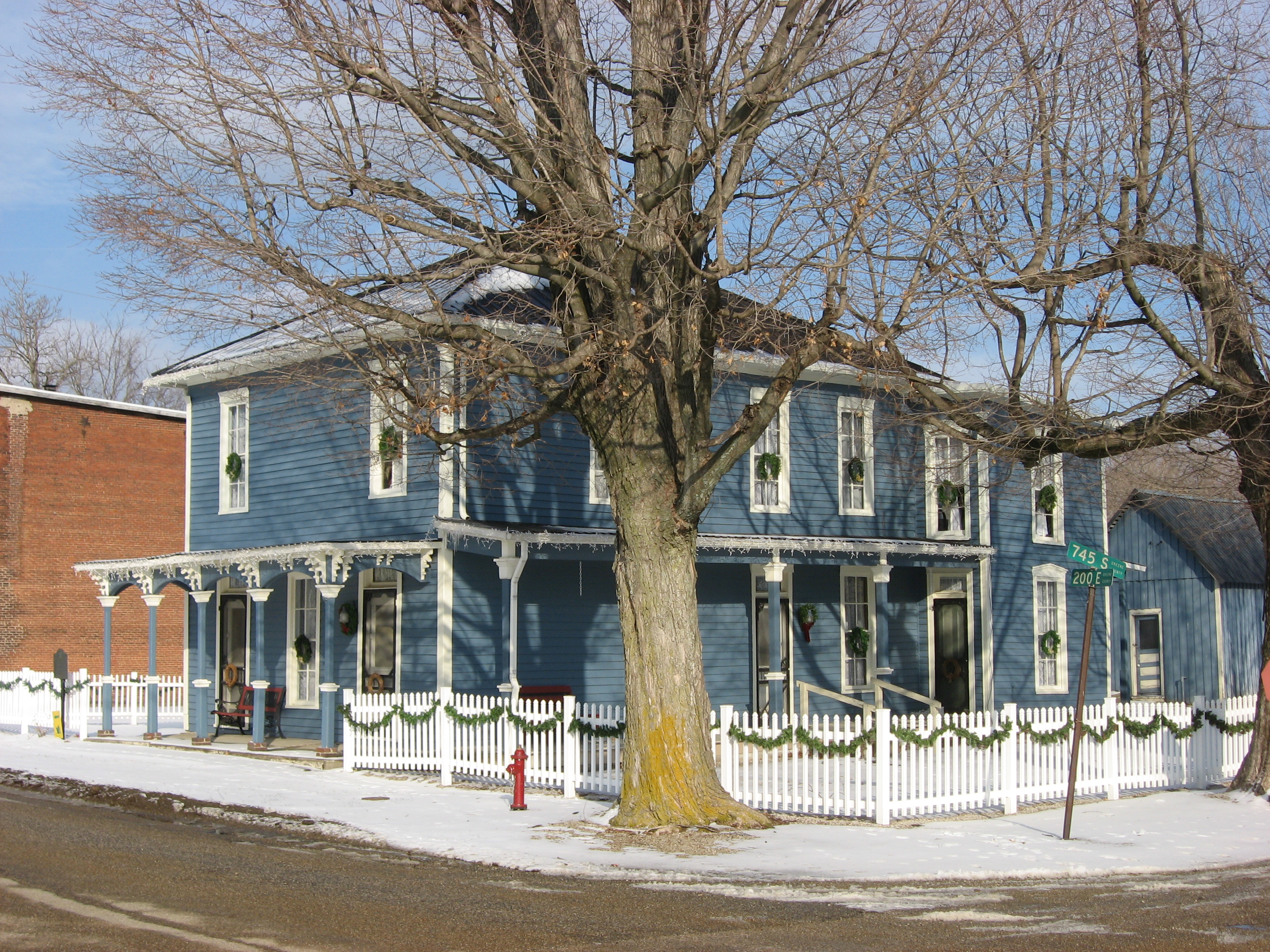 Front and southern side of the Scotland Hotel, located on the northeastern corner of the junction of Jackson and Main Streets in Scotland, Indiana, United States. Built in 1879, it is listed on the National Register of Historic Places.